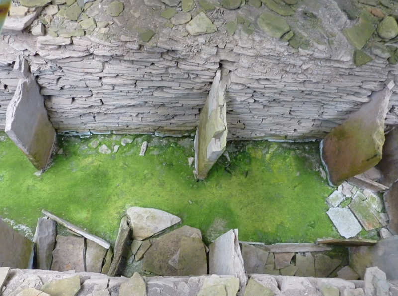 Midhowe Chambered Cairn, Rousay, Orkney, Scotland - compartments seen from above.